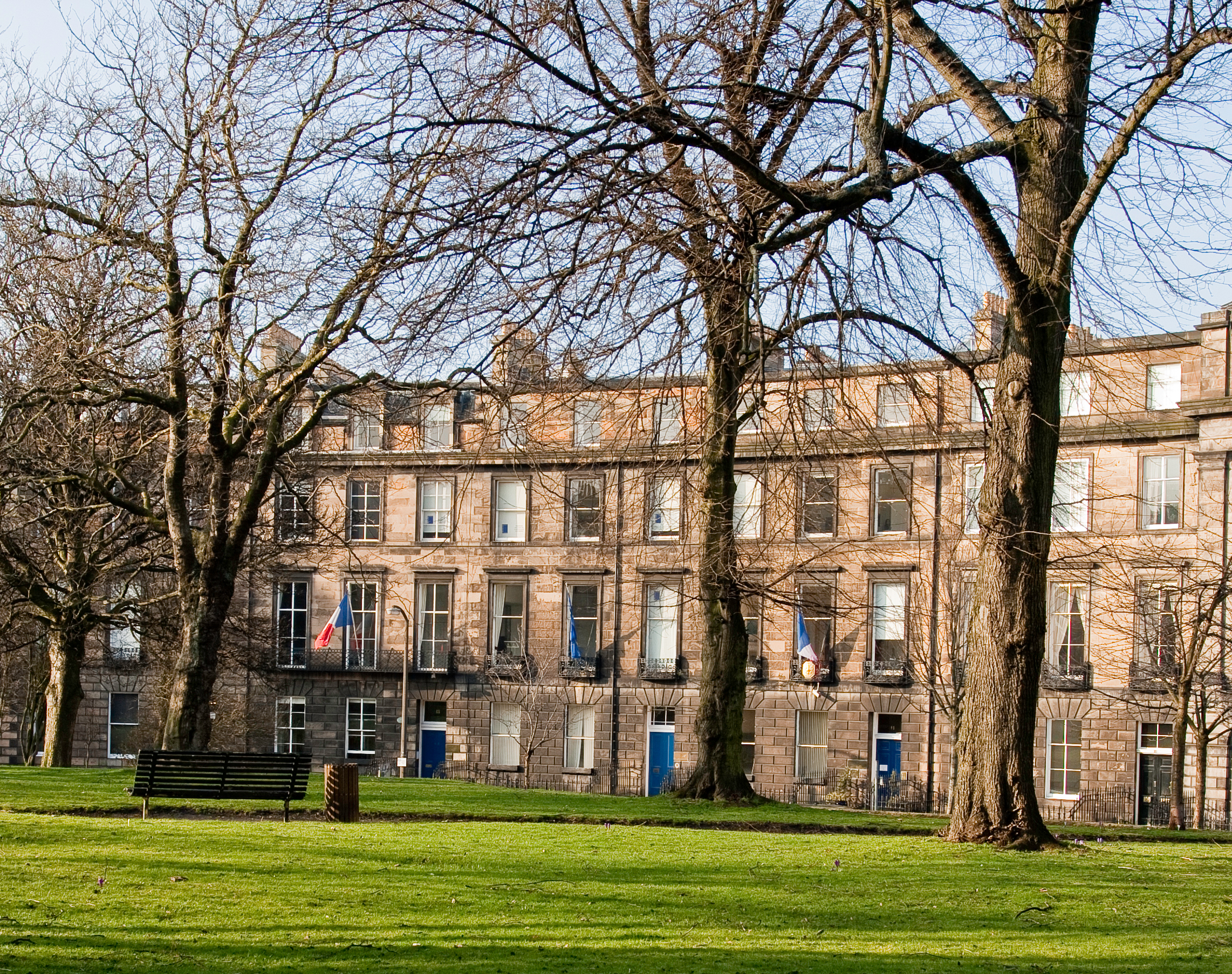 The French Institute from Randolph Crescent garden.